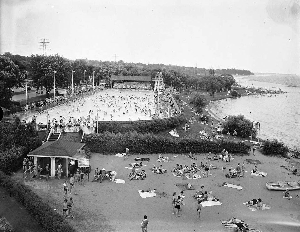 View of Sunnyside Pool and Beach. Toronto, Canada.